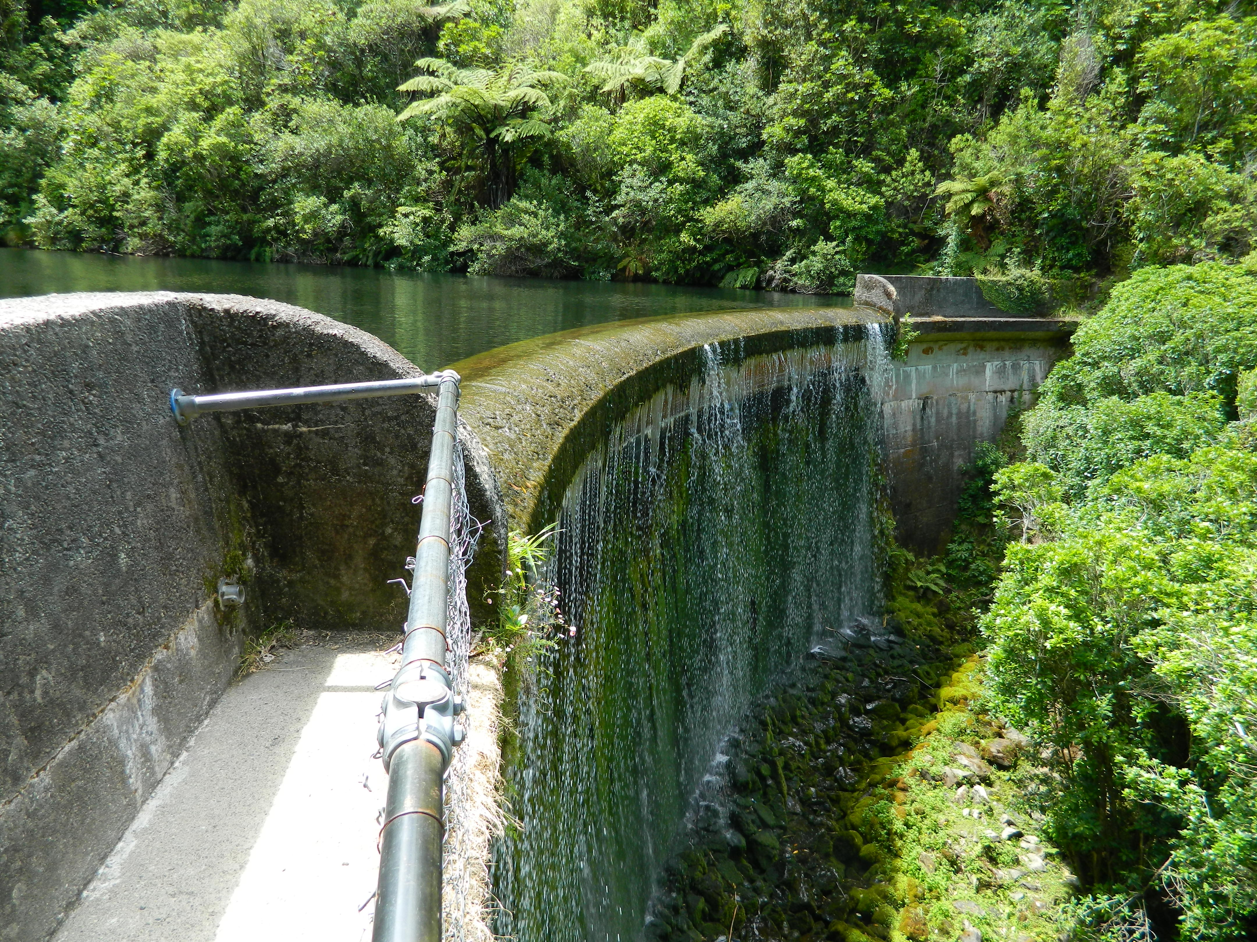 Birchville Dam spillway